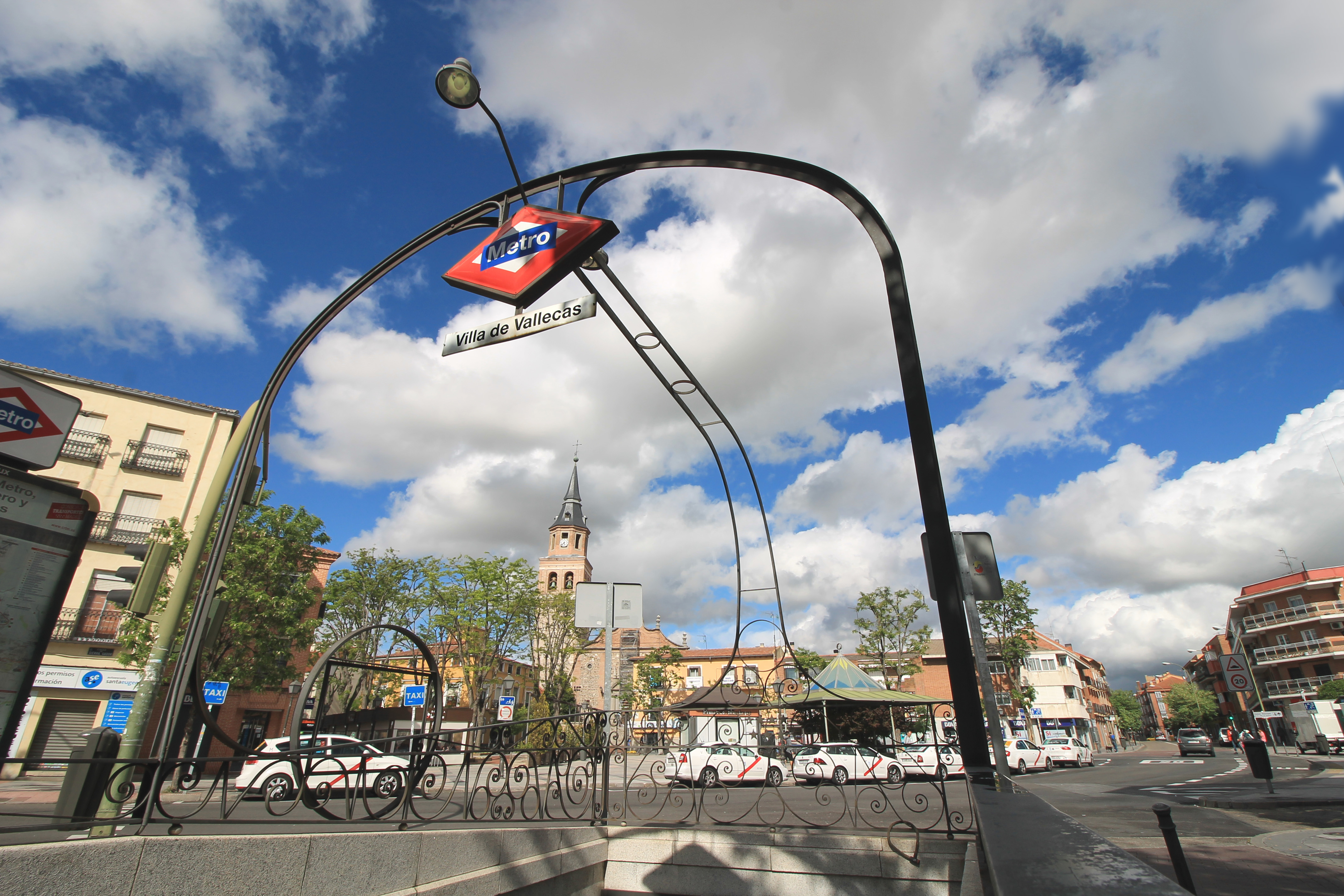 Entrance of Villa de Vallecas metro station in Madrid (Spain).